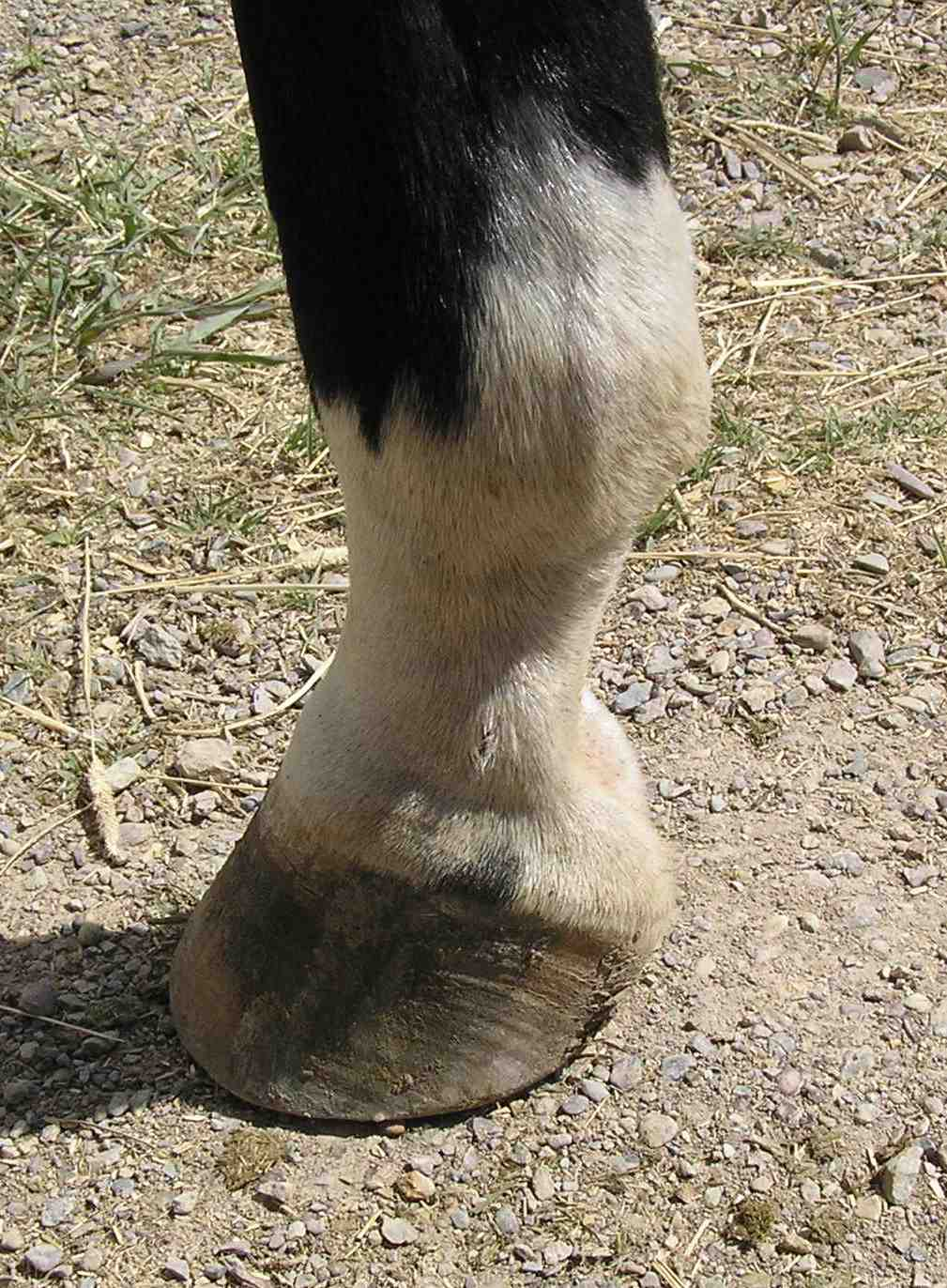 Close up of a horse's leg trimmed for show